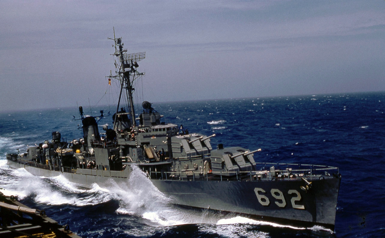 The U.S. Navy destroyer USS Allen M. Sumner (DD-692) in April 1959. The photo was taken from the aircraft carrier USS Franklin D. Roosevelt (CVA-42) during that carrier's deployment to the Mediterranean Sea from 13 February to 1 September 1959.